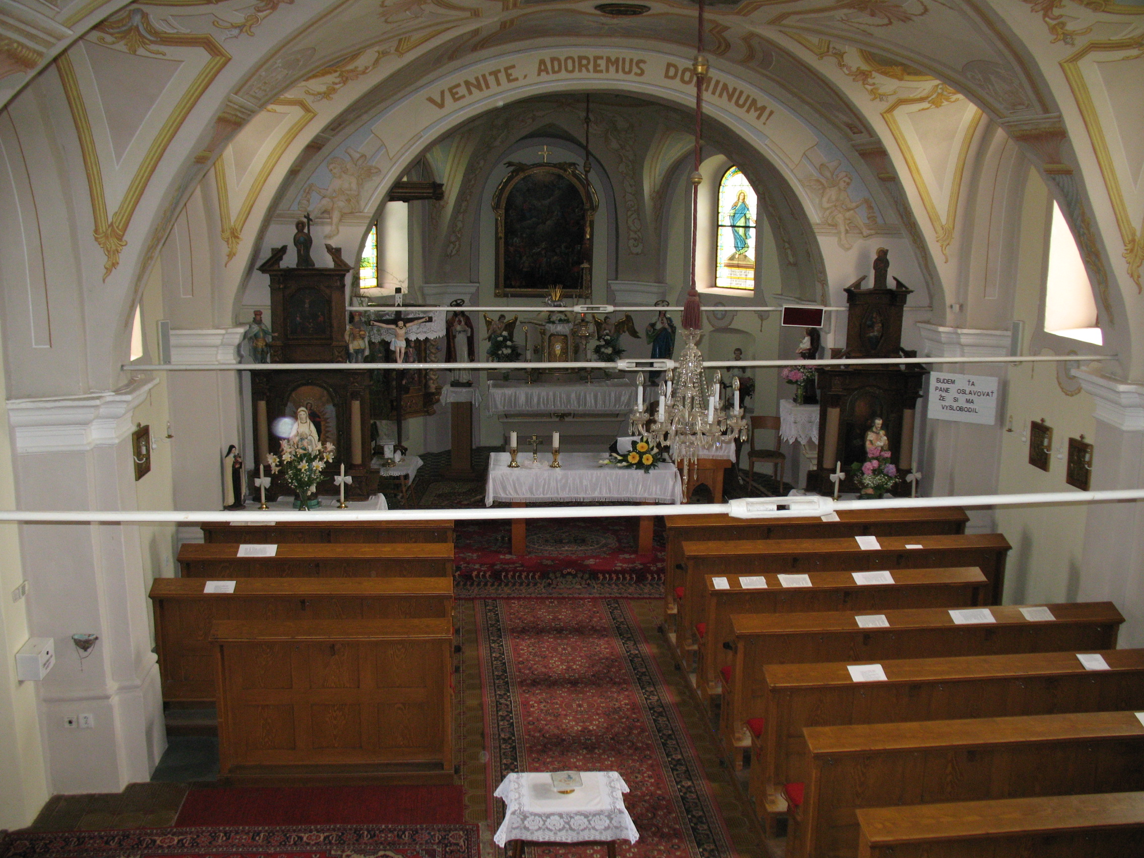 Venite, Adoremus Dominum!